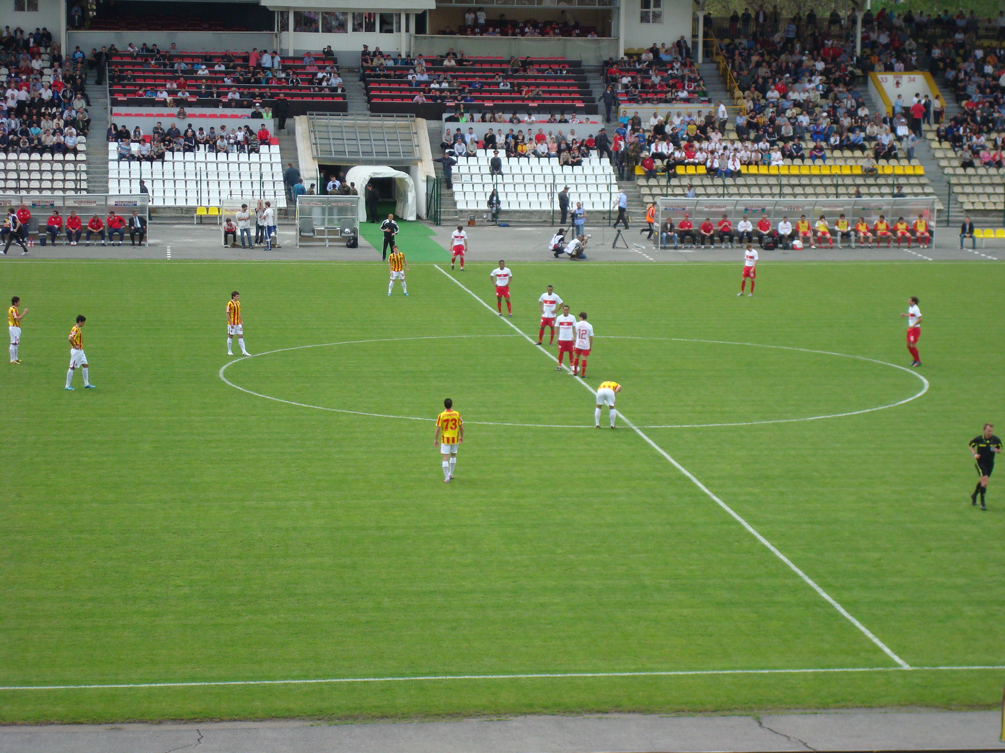 FC Alania - FC Spartak Moscow 5:2. May 10, 2010